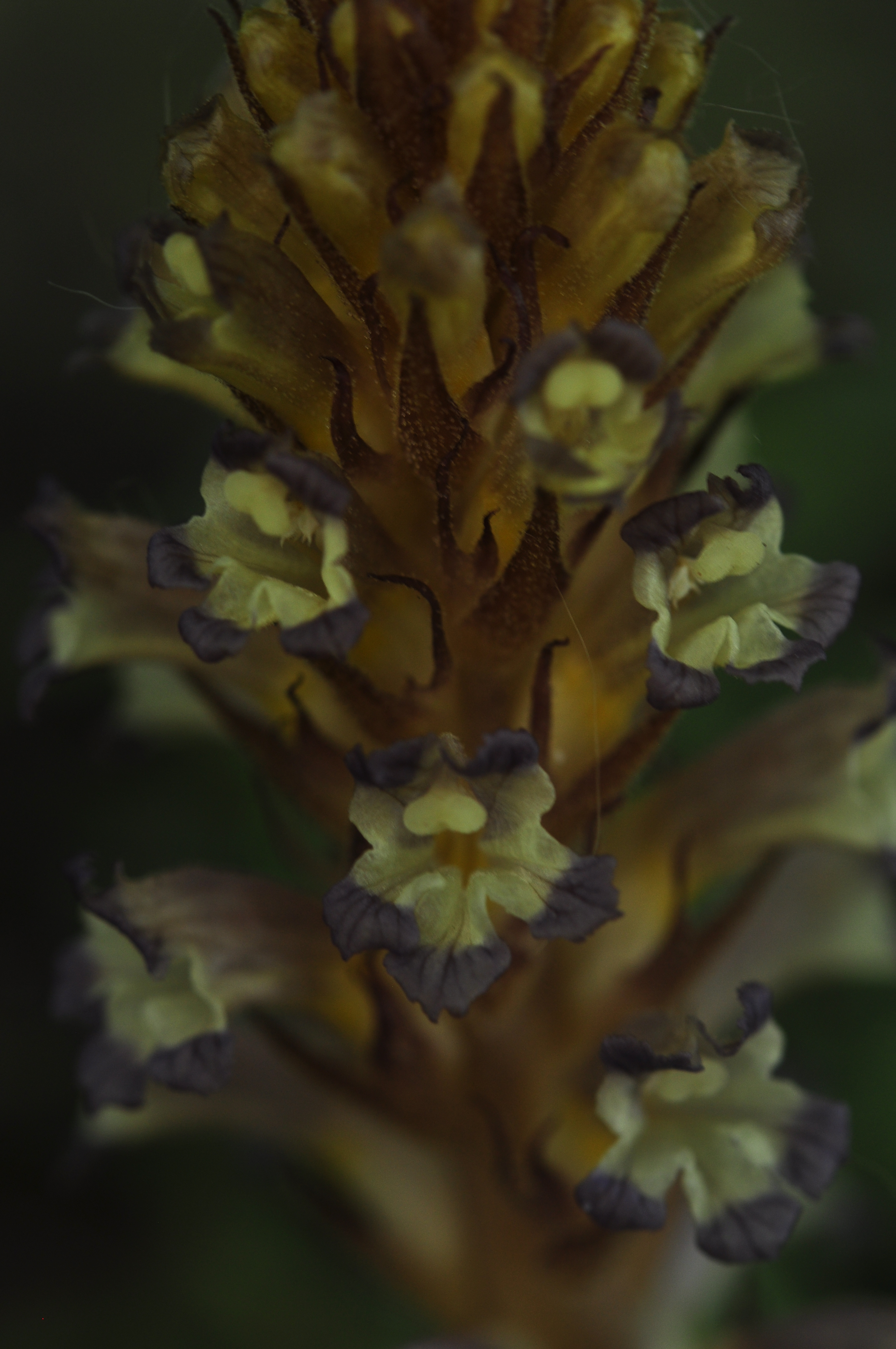 Achlorophyllous root parasitic plant Grenie’s bromrape (Orobanche grenieri F. W. Schultz). Its Crimean Tatar name is Yılan çomuç (its literal translation is "a snake ladle").: Locality: Karadag biostation, Kurortne village, Autonomous Republic of Crimea, Ukraine, July 2017. Coordinates: 45°04'46.4"N 34°43'18.6"E. #flora_taurica